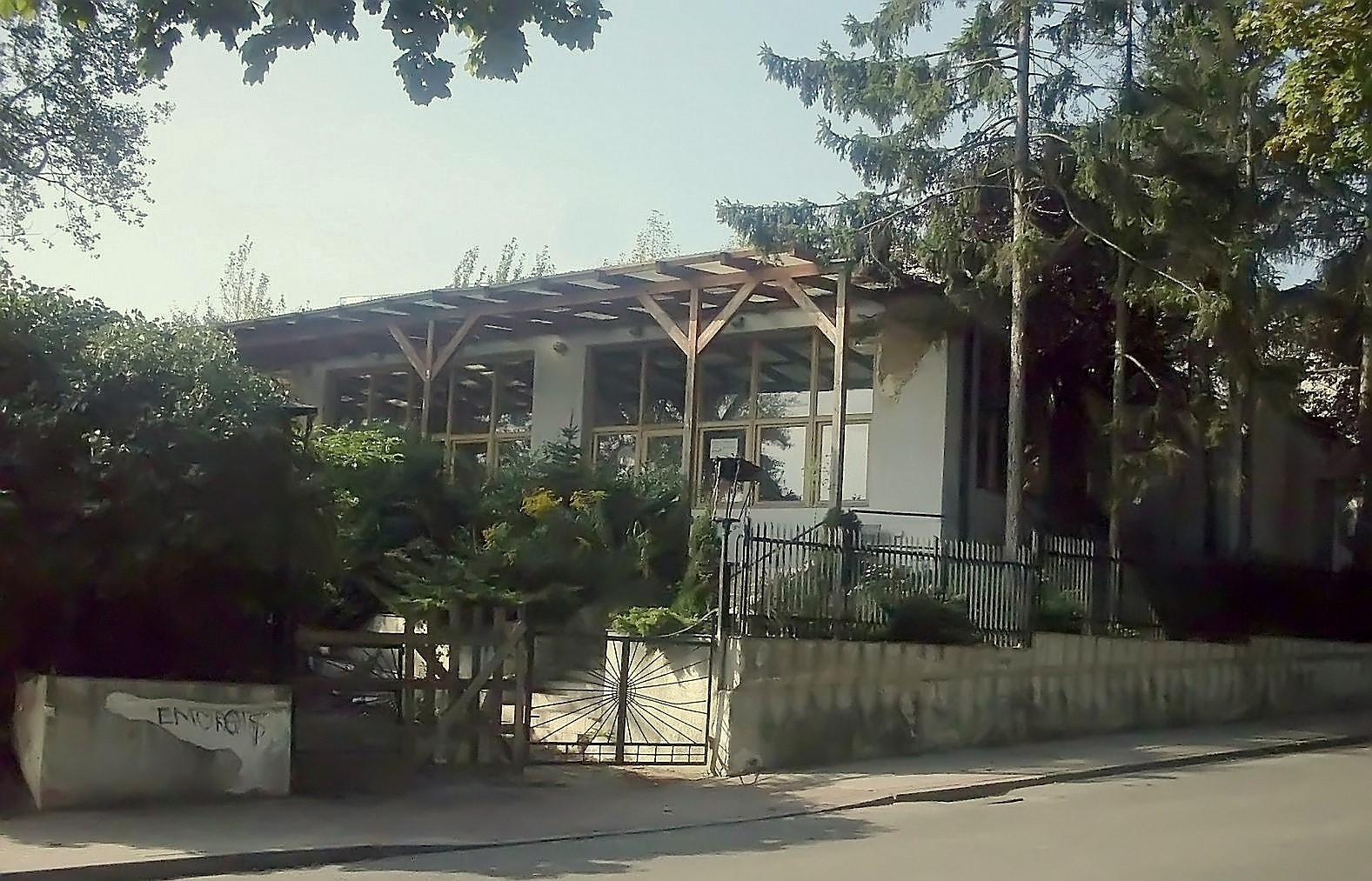 The building of the former restaurant "Maksym" at district Orłowo in Gdynia. Mention in the hit of the Polish rock band Lady Pank "Tańcz, głupia tańcz". Here one created also the eighth episode of the series: "07 report ".